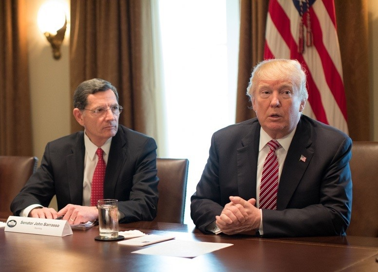 President Donald J. Trump, seated next to U.S. Senator John Barrasso, R-WY, right, meets with members of Congress in a bipartisan, bicameral meeting to discuss infrastructure proposals, Wednesday, February 14, 2018, in the Cabinet Room at the White House in Washington, D.C.